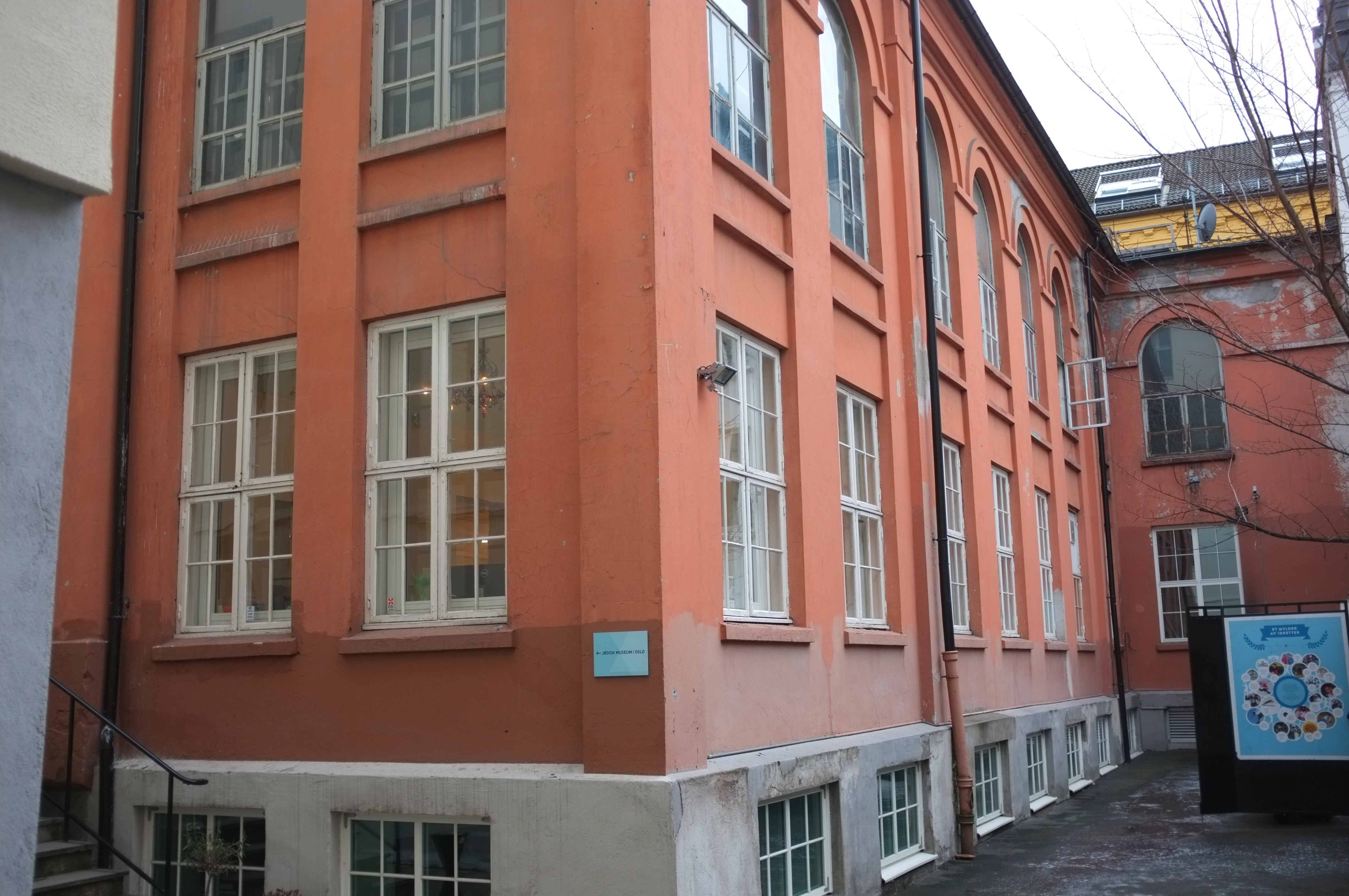 Oslo Jewish Museum